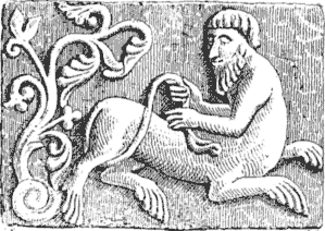 Lion centaur at the church Vor Frue Kirke, Aalborg, Denmark